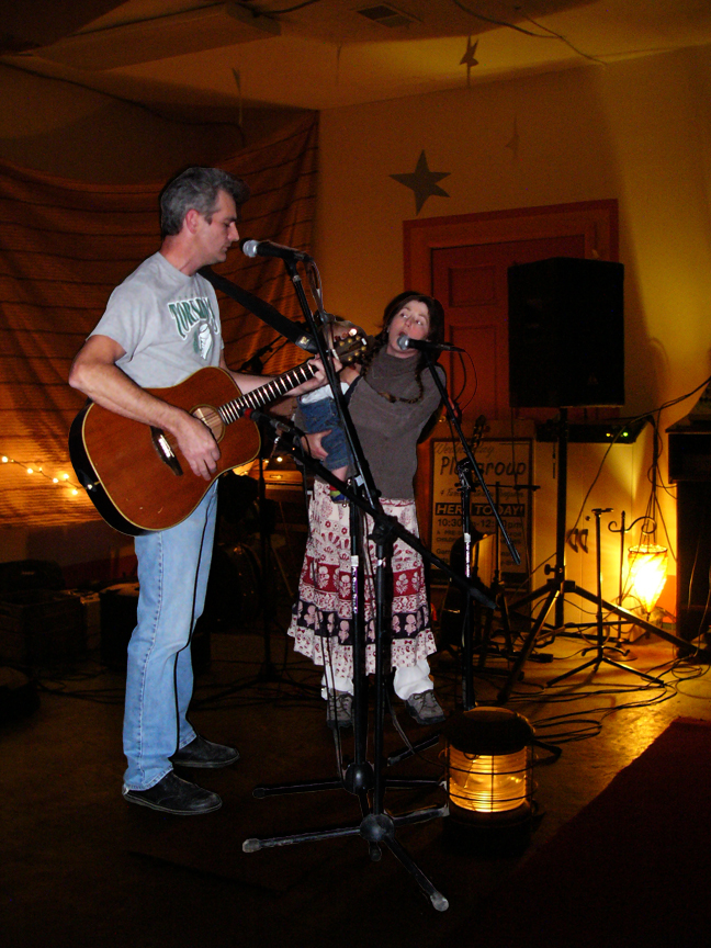 KLDK-LP benefit - Jody & Clark bring down the housephoto by Carptrash 03:35, 11 September 2007 (UTC)